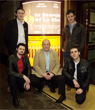 Photograph form In Search Of La Che Premiere at Glasgow Film Theatre